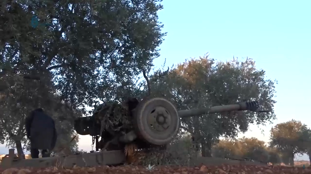 Syrian opposition-affiliated artillery bombards the government-held village of Khuwain in Idlib Governorate.